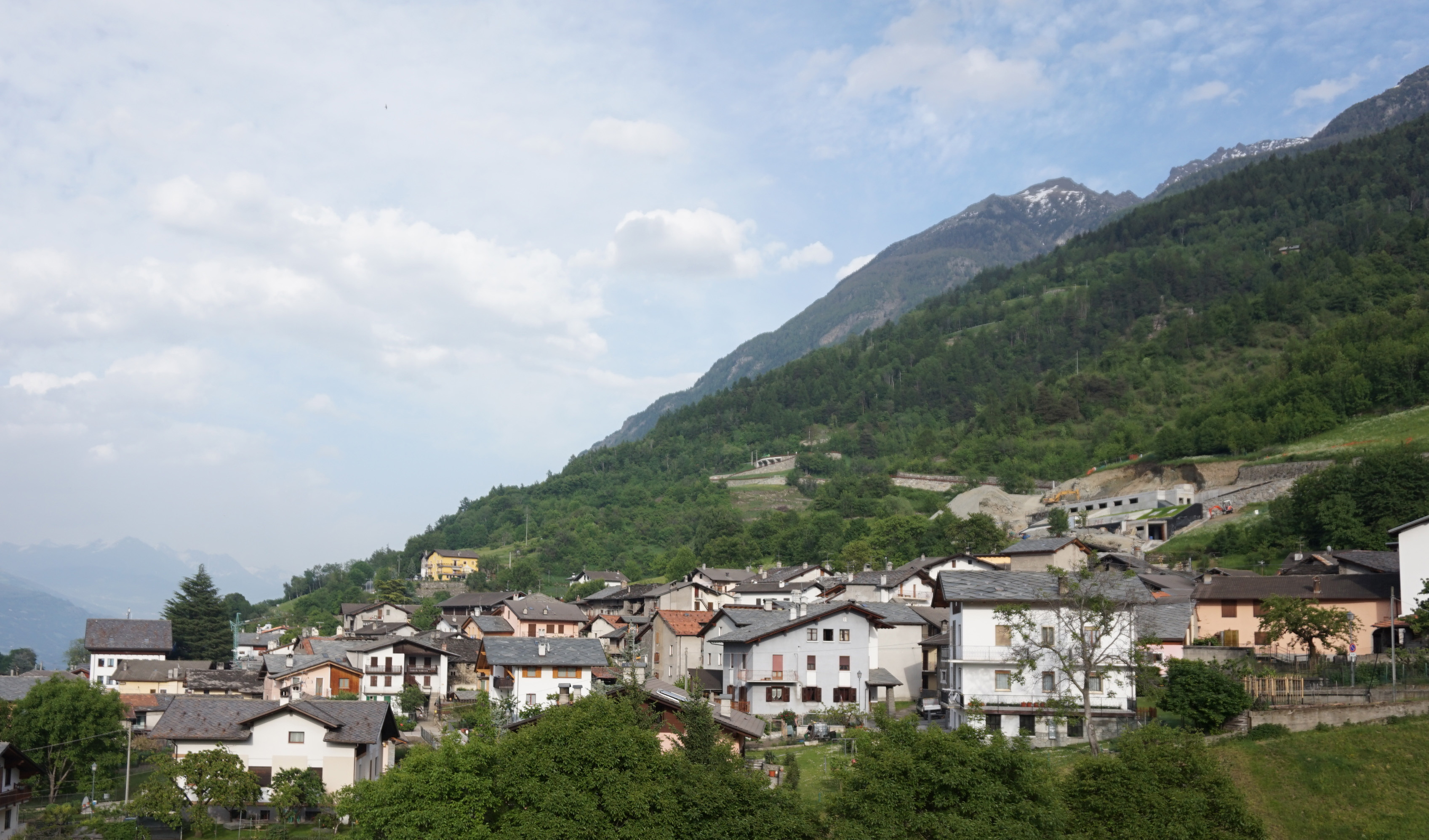 Write hereThis photograph was taken with a Sony ILCE-5000